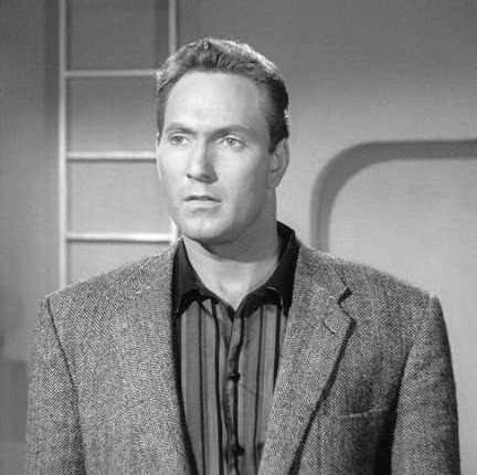 Film: Plan 9 from Outer Space (1959) Director: Ed Wood, Jr. Actor Portrayed: Gregory Walcott The original 1959 version of this film is public domain, although there may be a copyright on the musical score